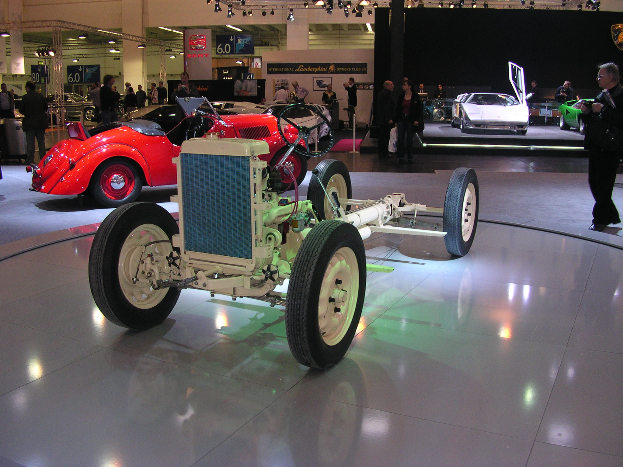 Chassis of Škoda 420 Popular (1935) see [1]